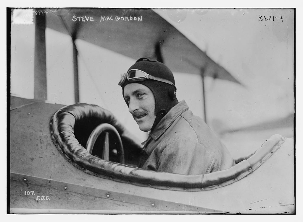 Steve MacGordon (1884 - June 6, 1916) circa 1915.